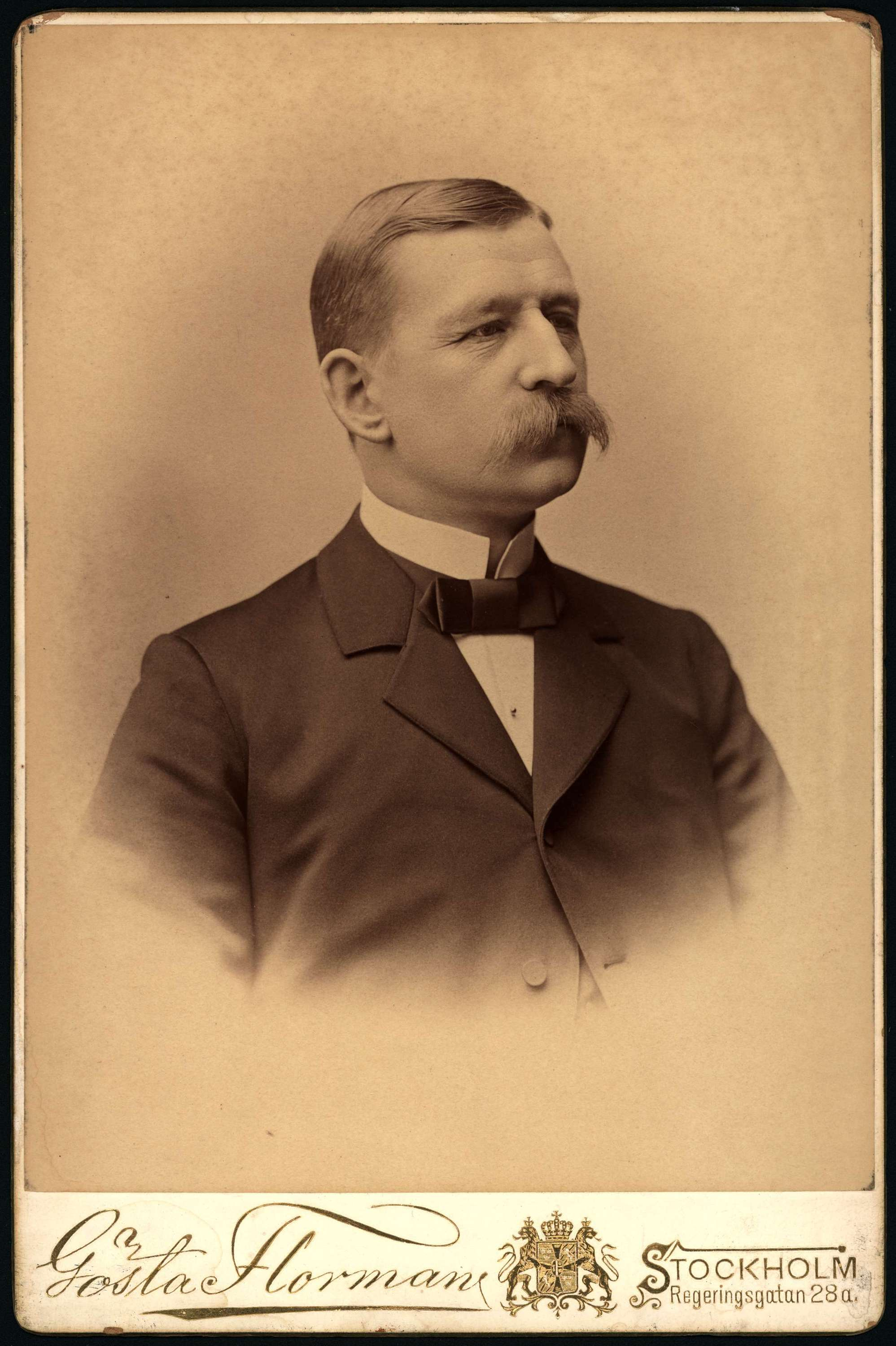 Salomon August Andrée, (1854-1897). Swedish explorer.